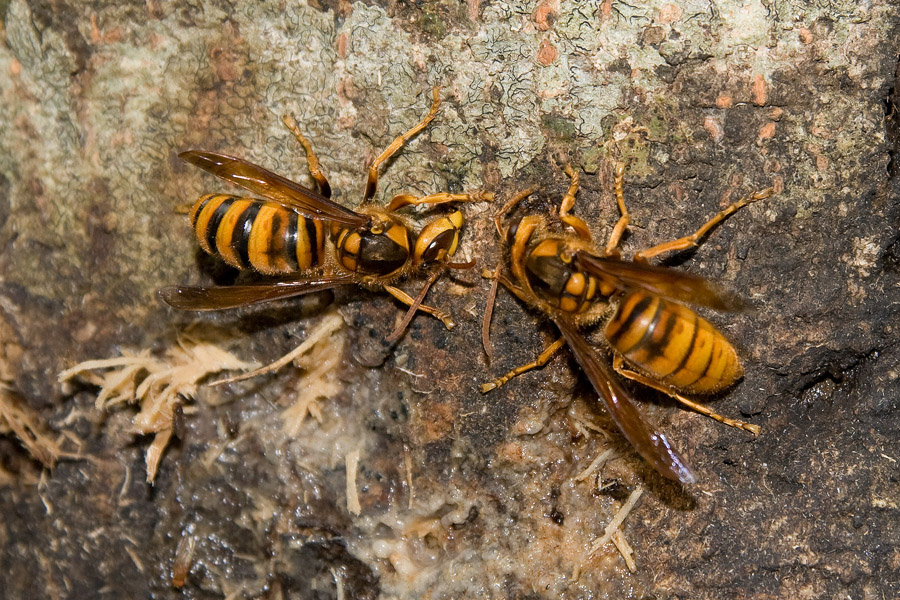 Japanese yellow hornet (Binomial name:Vespa simillima xanthoptera)